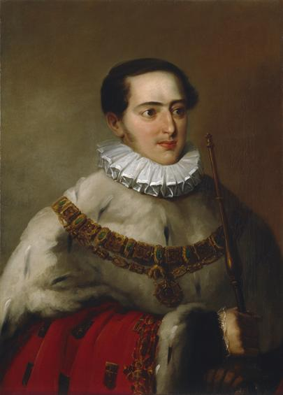 regnal portrait